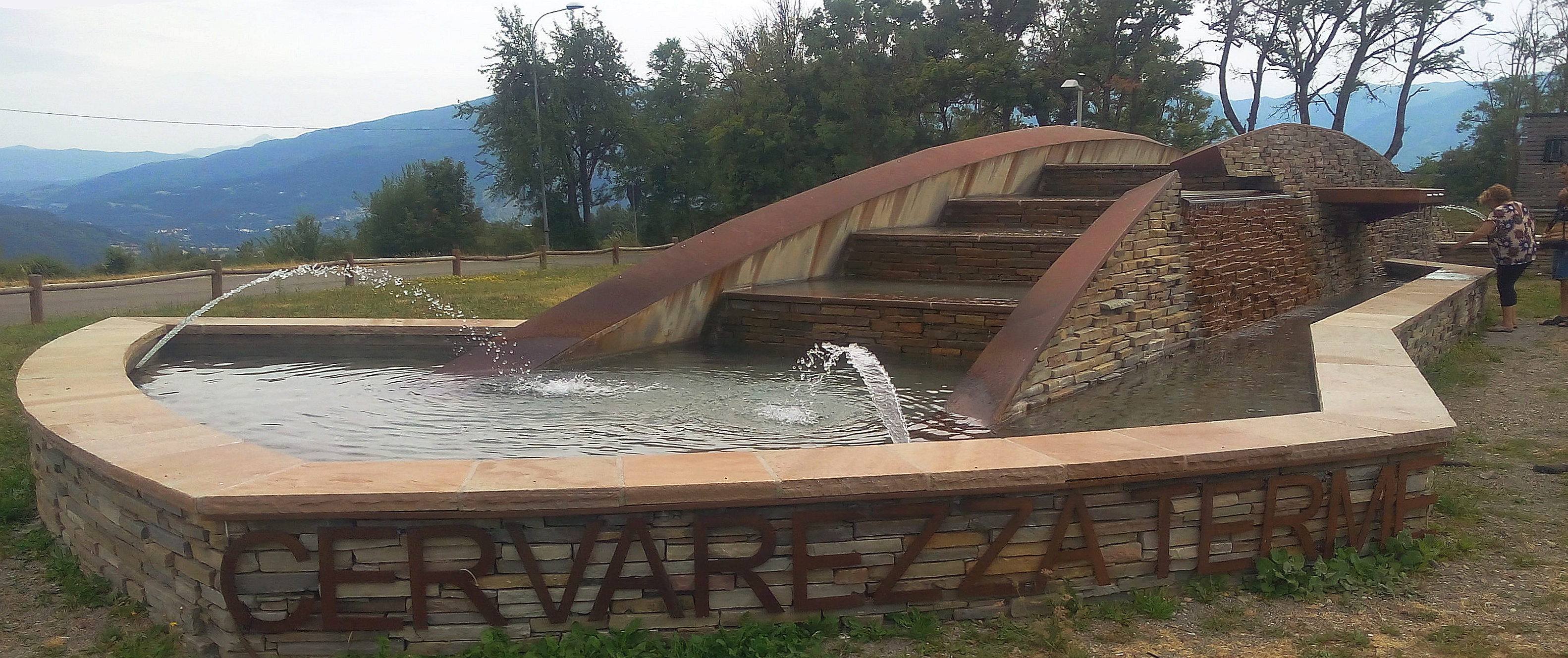 Cervarezza Terme (Ventasso, RE, Italy)